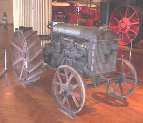 The first production Fordson tractor, given by Henry Ford to scientist Luther Burbank. Now owned by the Henry Ford Museum. Photo by rmhermen.